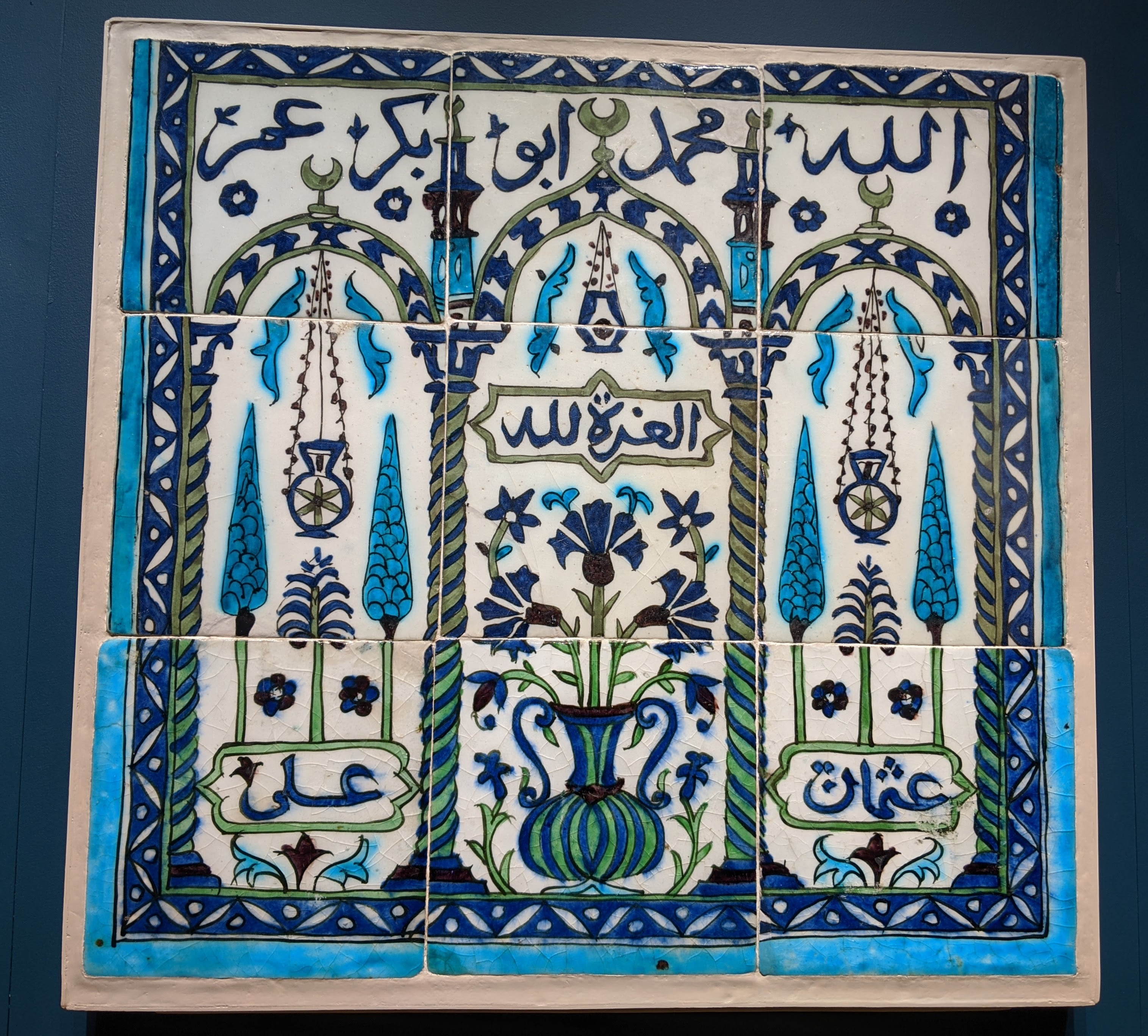 Tile panel from Damascus, c. 1600, Central panel: "Glory to God" Top (right to left): God (Allah), Muhammad, Abu Bakr, Umar Bottom-right: Uthman, Bottom left: Ali The last four names are the first four Caliph of Islam Location: Boston Museum of Fine Arts